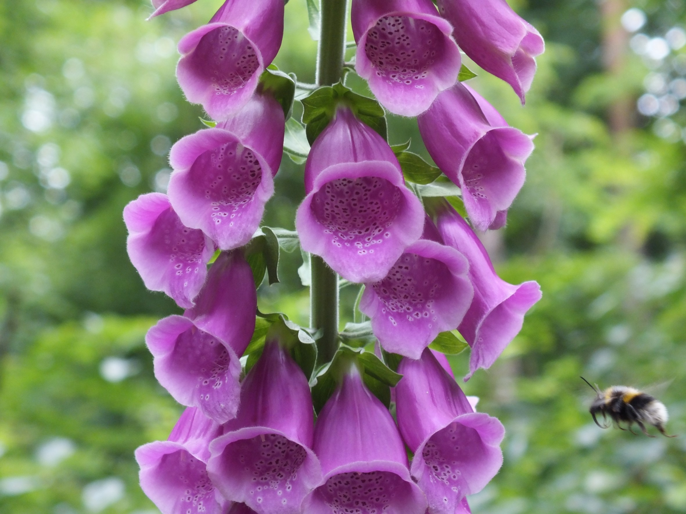 A foxglove flower and a bee